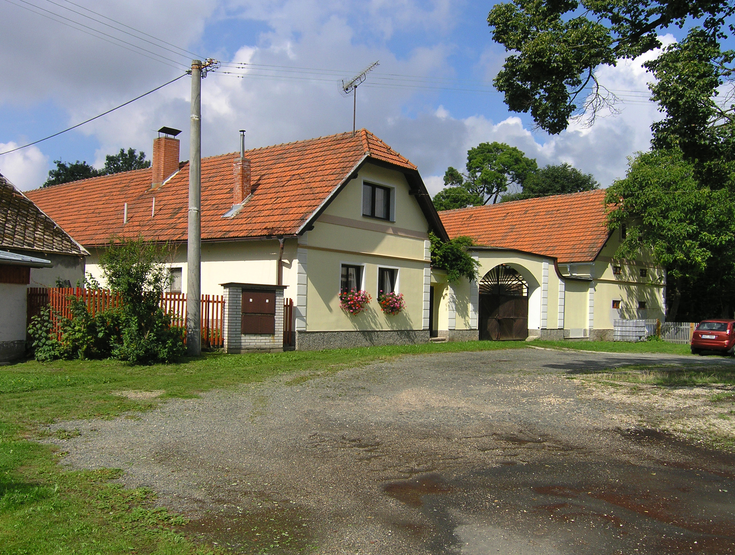 Old farm in Prostřední Ves, part of Bohdaneč, Czech Republic